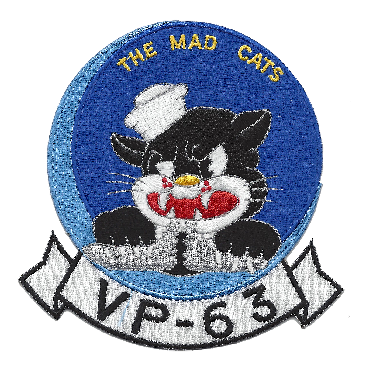 The VP-63 Madcats patch.